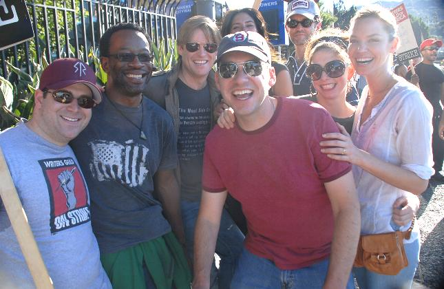 The cast of the U.S. television series "Jericho" during the 2007 WGA strike. Back L-R: ?, Lennie James, Brad Beyer, Alicia Coppola, ? Front L-R: Skeet Ulrich, ?, Ashley Scott